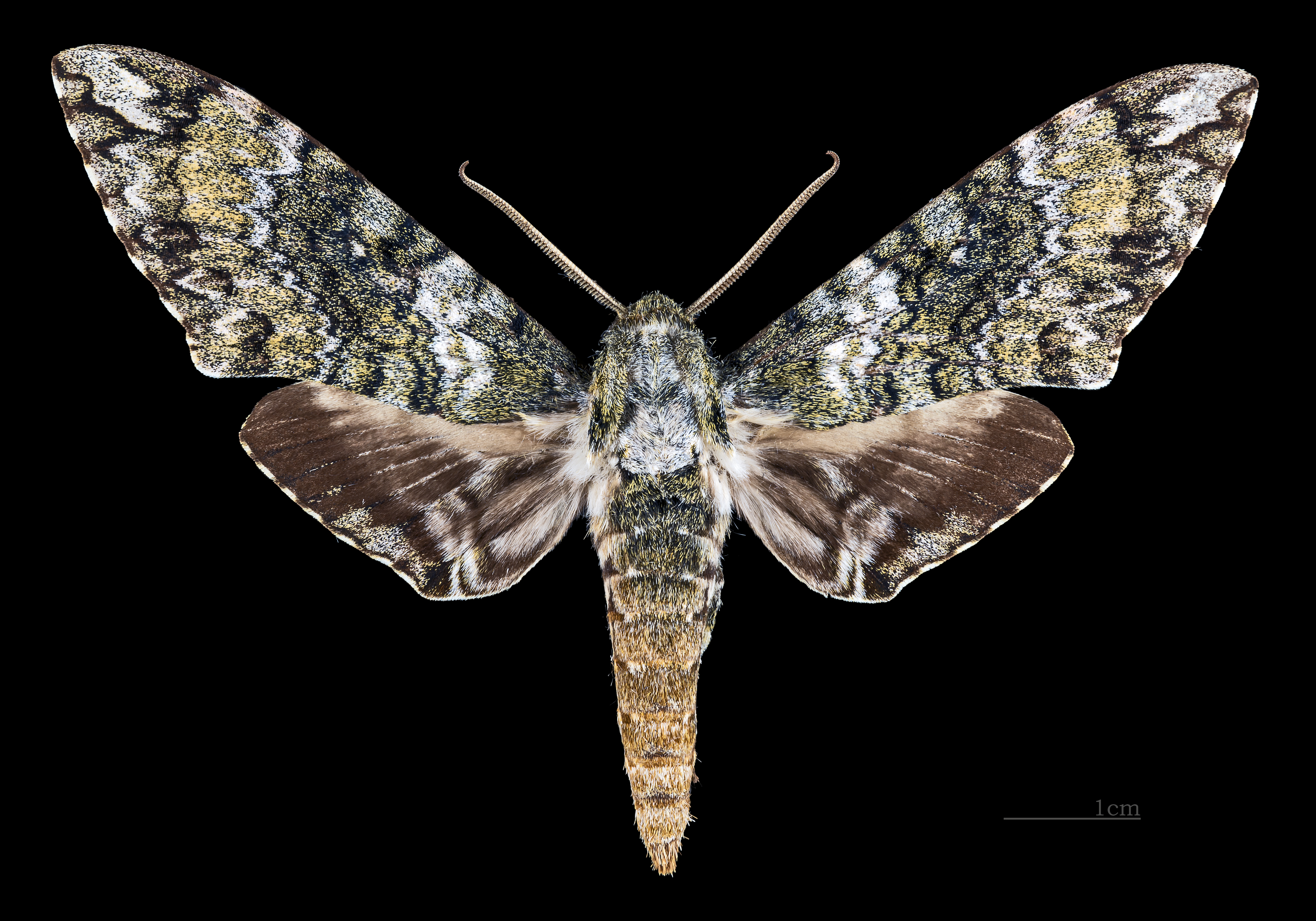 Manduca corallina - Dorsal side Collection of the Mathematician Laurent Schwartz